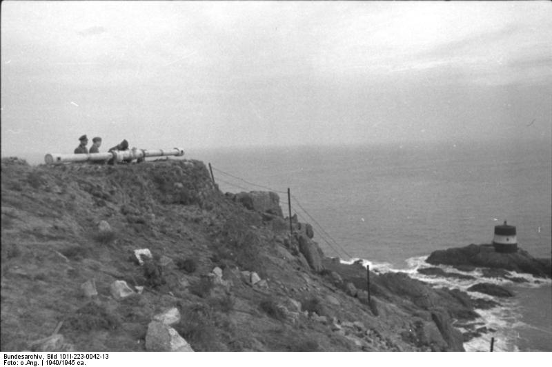 Information added by Wikimedia users.Photo location is the end of Noirmont Point, and appears to be taken just prior to the construction of the bunkers and fortifications which were completed in 1941.